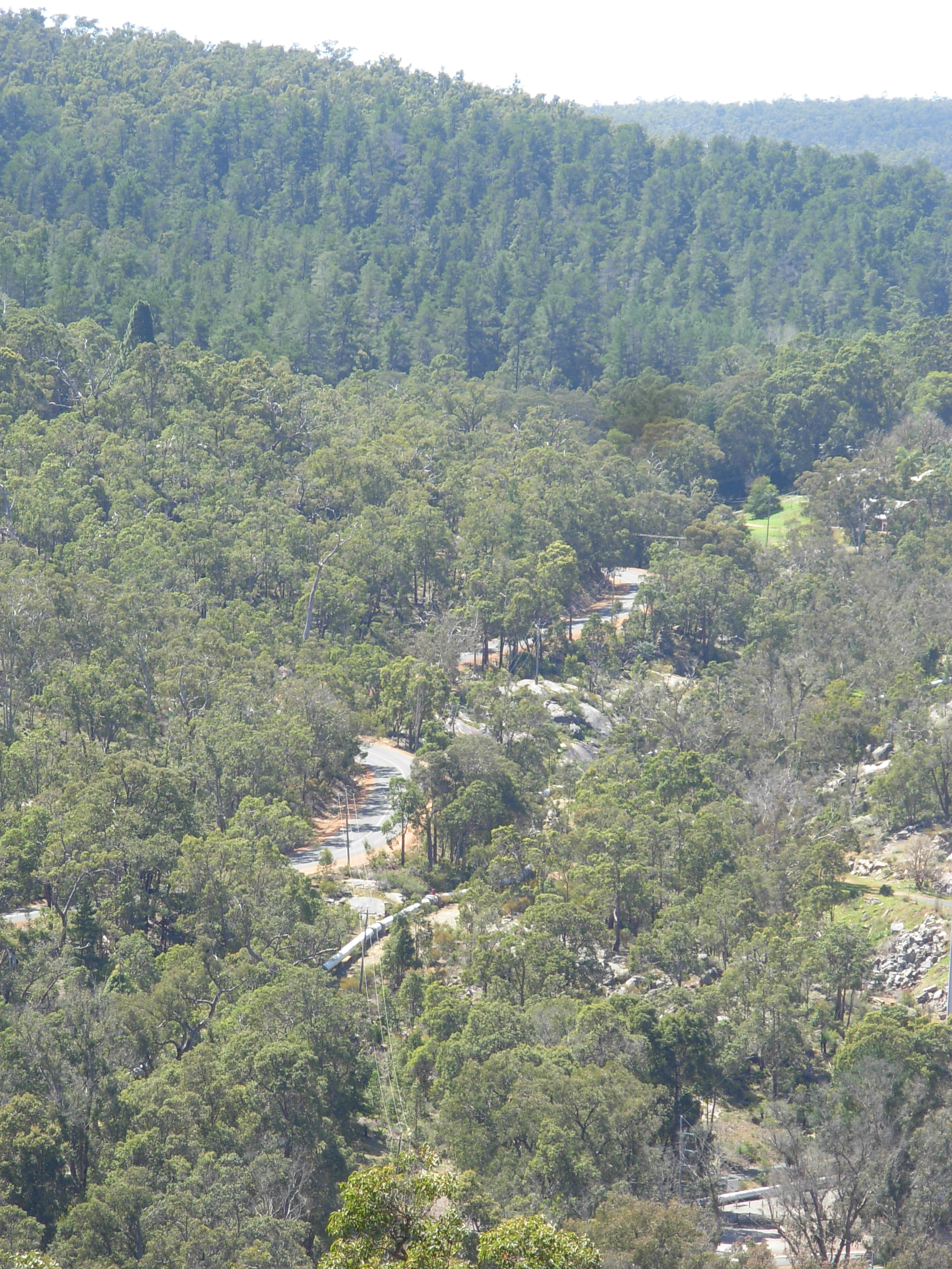 Mundaring Weir Road west of Mundaring Weir, running down the north side of the Helena river valley slope